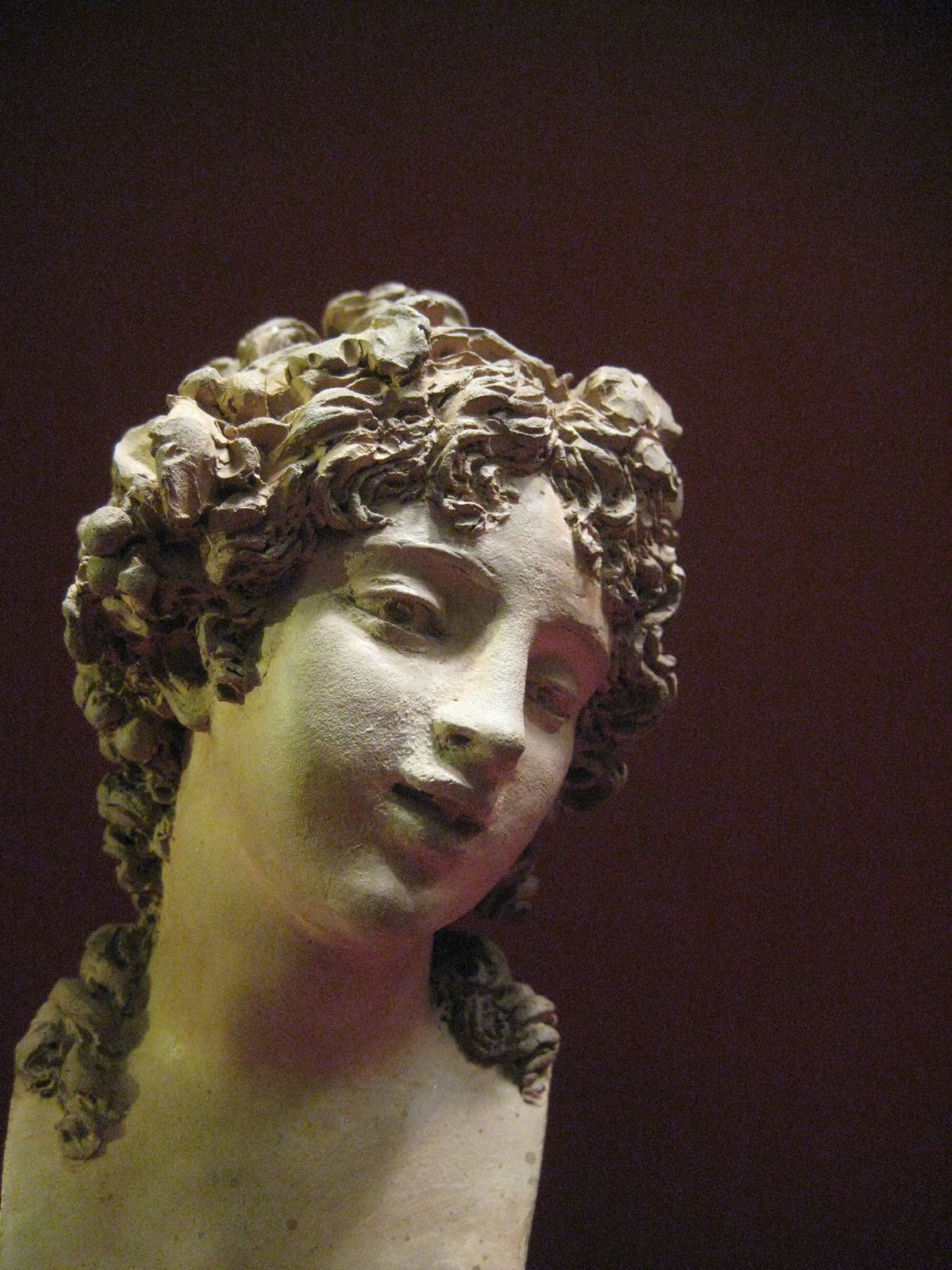 Joseph Charles Marin (1759 - 1834) sculpture, French Prix de Rome winner, in the Metropolitan Museum, NY